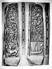 MacKinnon's Cross, is a shaft of a Celtic cross, found on the island of Iona. The cross has an inscription in Latin, which translated means: "This is the cross of Lachlan MacKinnon and his son John, Abbot of Hy, made in the Year of Our Lord 1489."